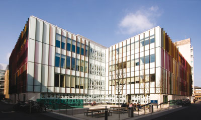 Image of the New Biochemistry Building